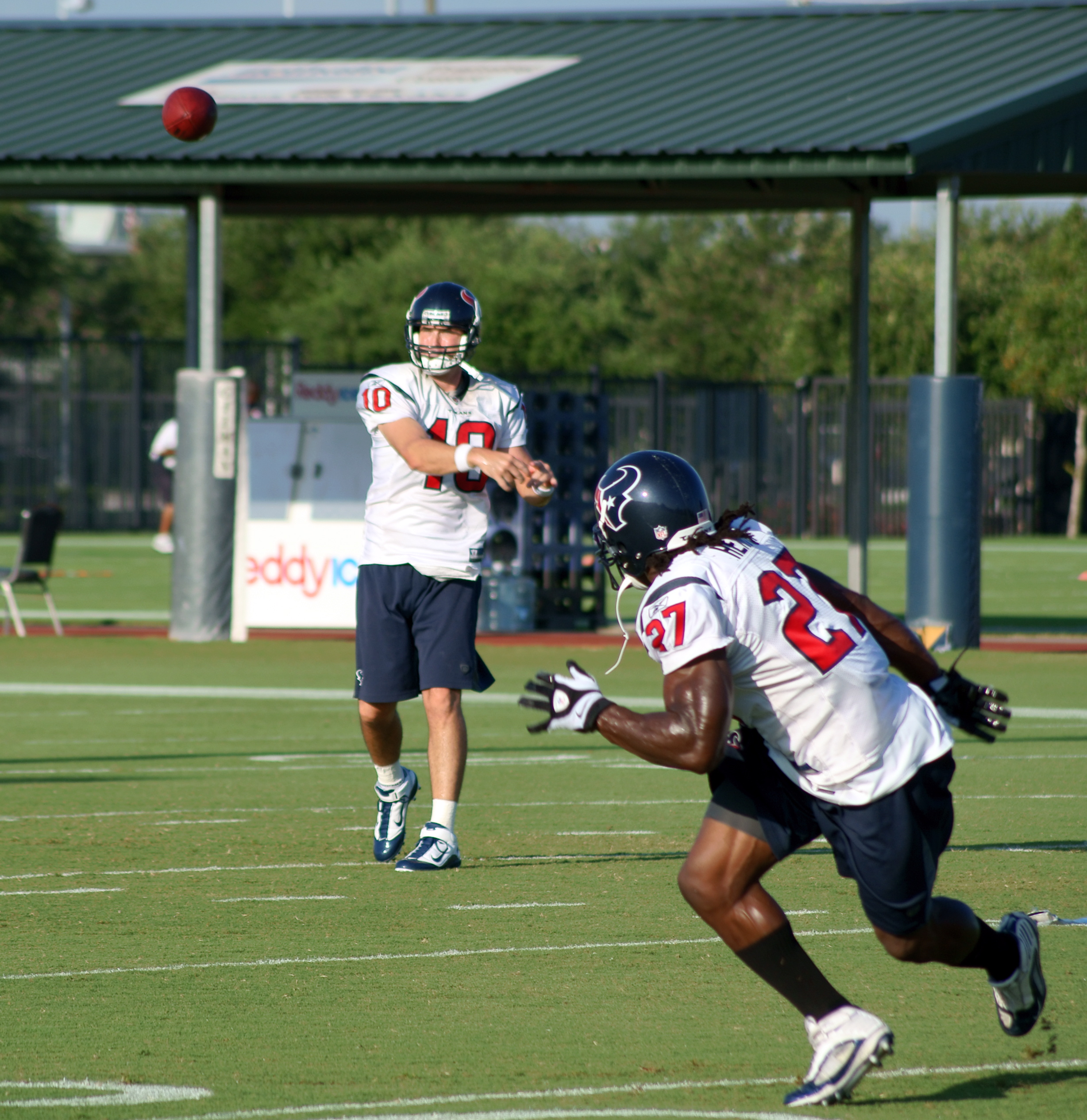 QB John David Booty throws a pass to RB Chris Henry - Houston Texans